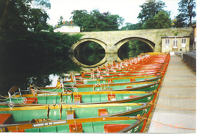 Rowing Boats, Knaresborough Awaiting hire on the Nidd.